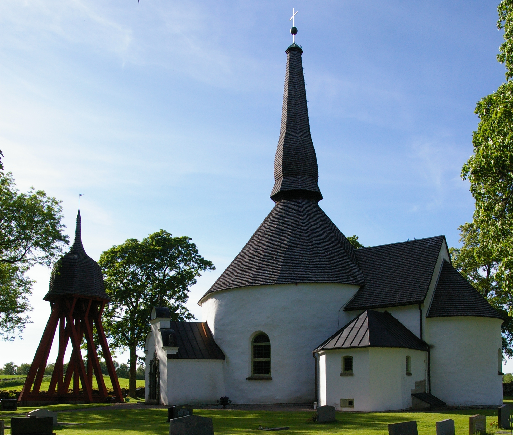 Skörstorps kyrka (swedish: church of Skörstorp), Västergötland, Sweden. The church was built in the 12th century.